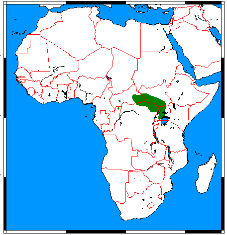 Range map for Pousargues's Mongoose (Dologale dybowskii), made by me with help of Map depending on the range map at IUCN red list.